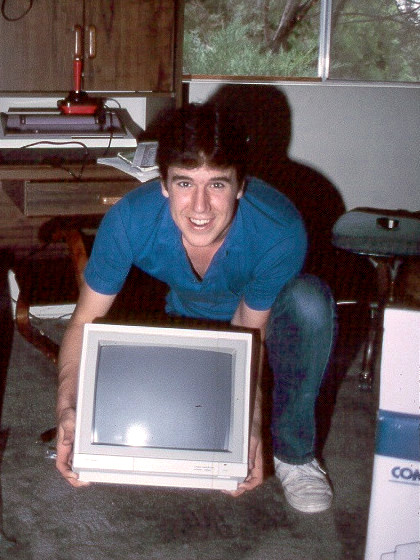 Computer programmer Terry A. Davis with his Commodore 1902A monitor in an undated photo. Estimated to have been taken after the Commodore 128's release in 1985.